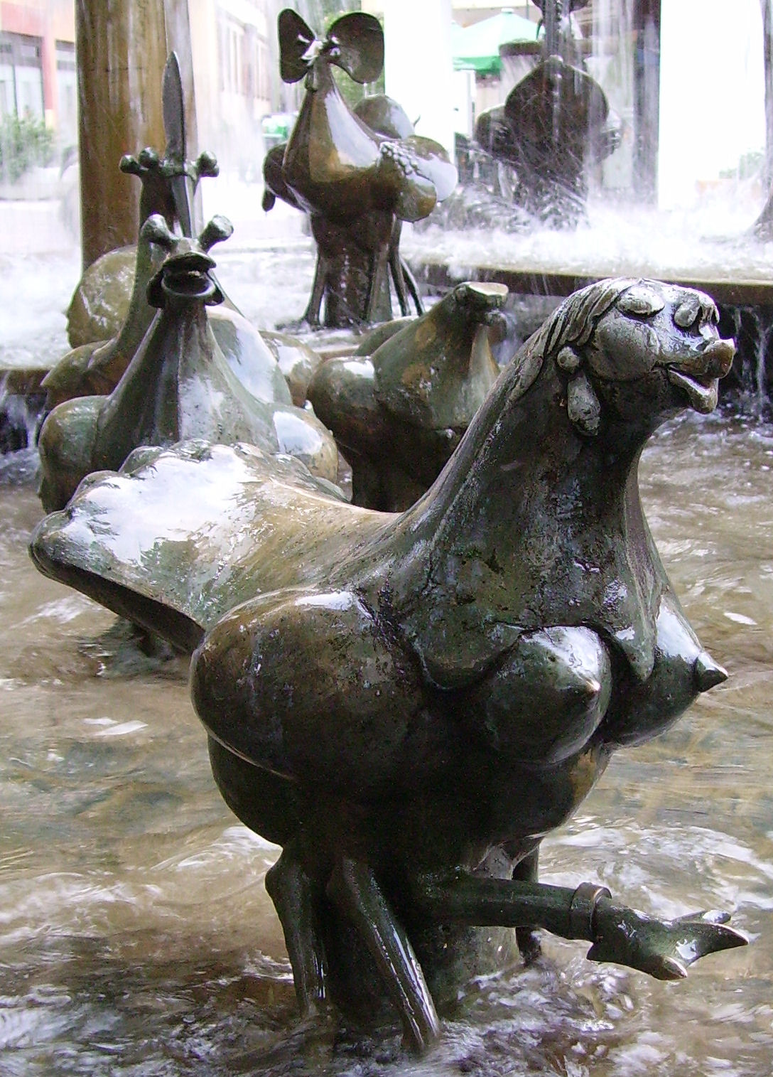 fountain in Neustadt an der Weinstraße, Germany